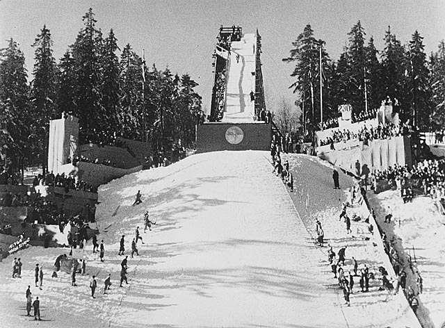 Holmenkollbakken, Oslo